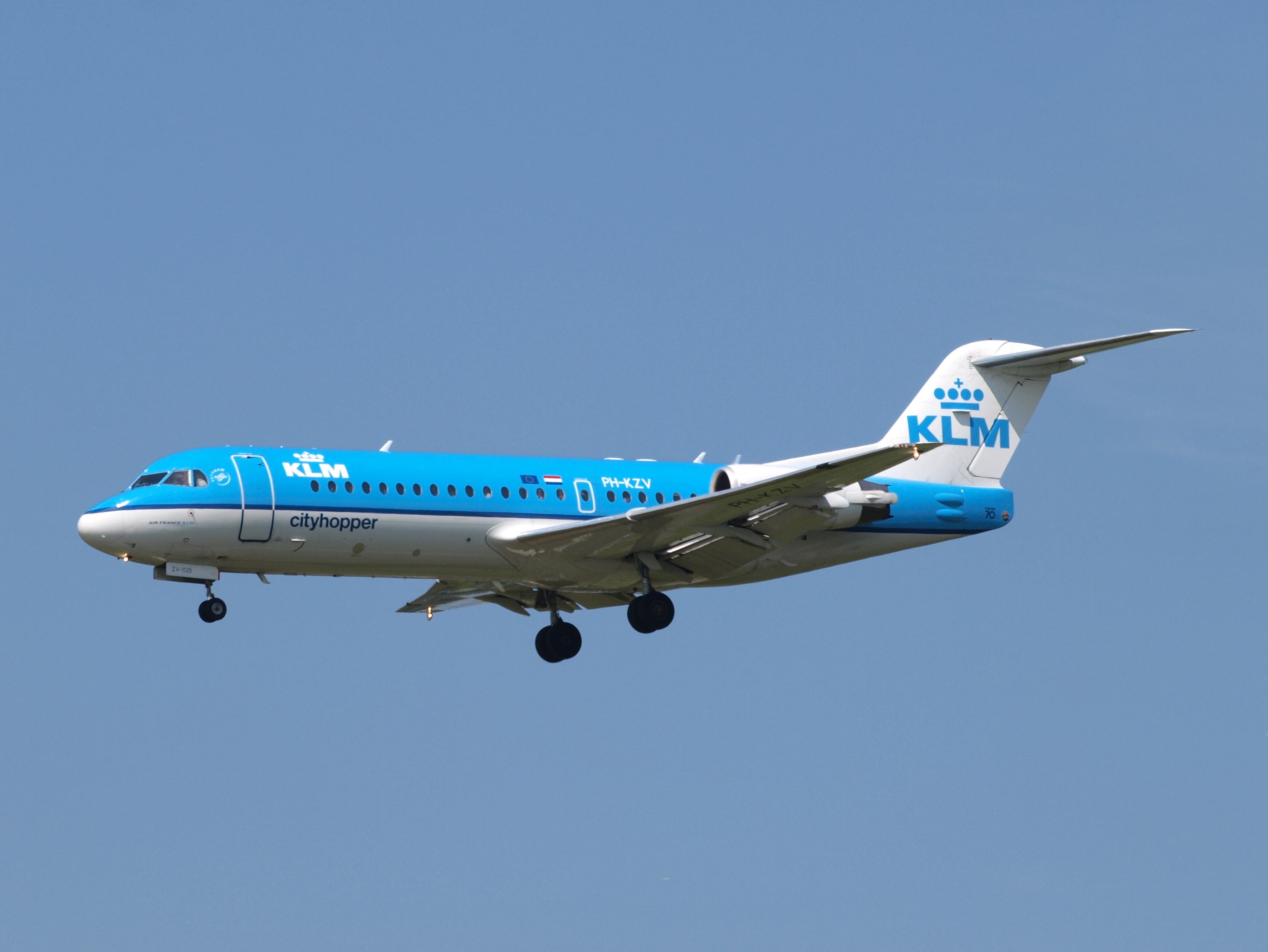 Photographed at Amsterdam airport Schiphol, the Netherlands.